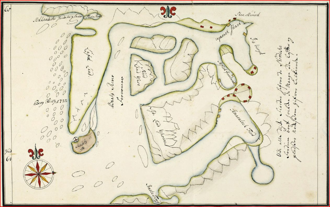 Hans Egede mapped the surroundings of the small island "Håbets Ø"=Hope Island where he stayed for the first years in Greenland. --Lena Dyrdal Andersen (talk) 17:48, 28 June 2010 (UTC)